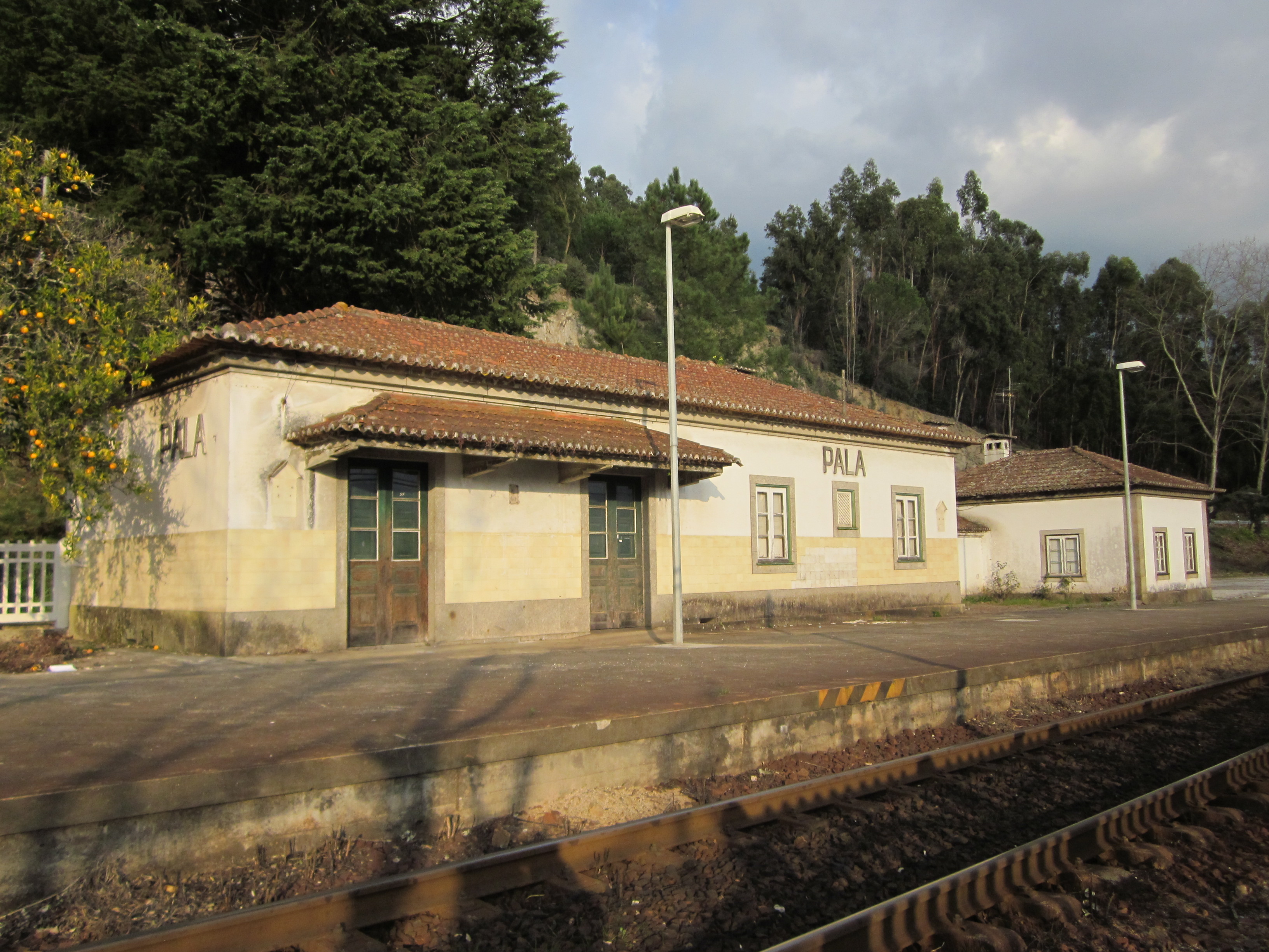 Railway station in Pala, Baião, Portugal.